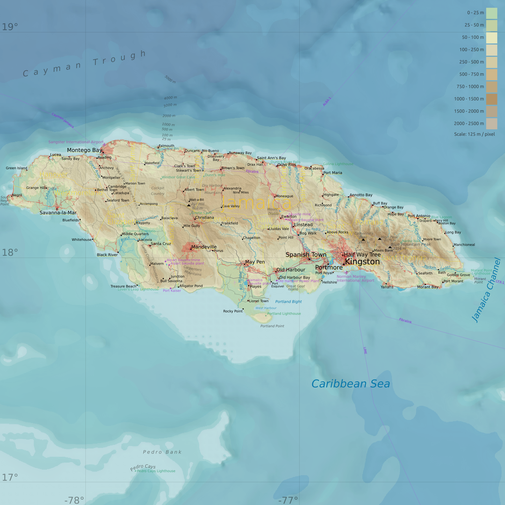 Map of Jamaica. Scale: 125 m/pixel. Projection: WGS 84 / Pseudo Mercator, EPSG: 3857. Extent (xmin, ymin, xmax, ymax): -8727448.078 1908922.081 -8464646.746 2171723.413. Legend: motorway primary road secondary/tertiary road aeroway railway communications cable parish border water river/canal wetland industrial area quarry archeological site, point of interest residential area amenity (cf.